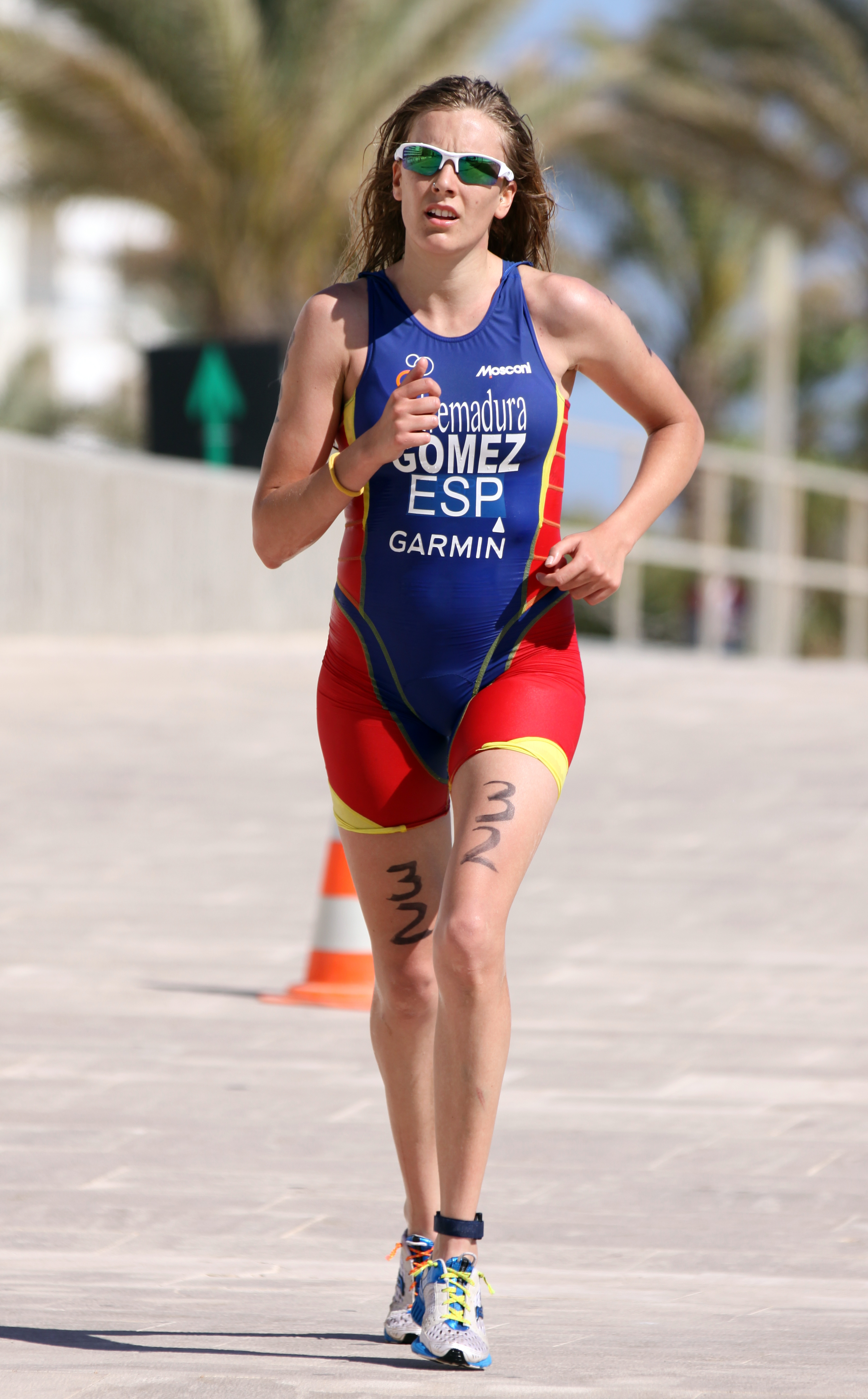 Tamara Gómez Garrido at the European Cup triathlon in Quarteira.